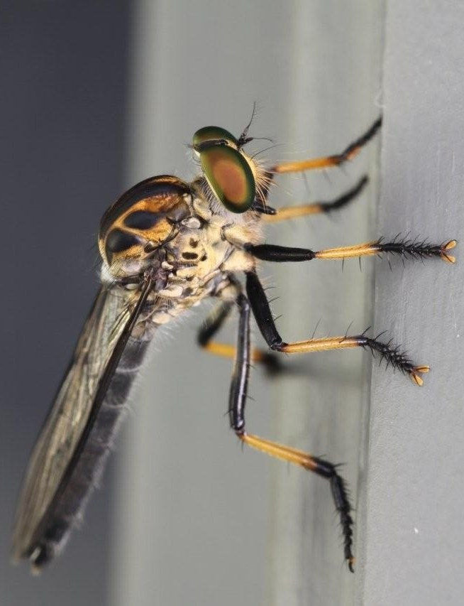 Robber Fly (Ommatius species) near Dungog